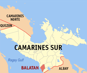 Map of Camarines Sur showing the location of Balatan